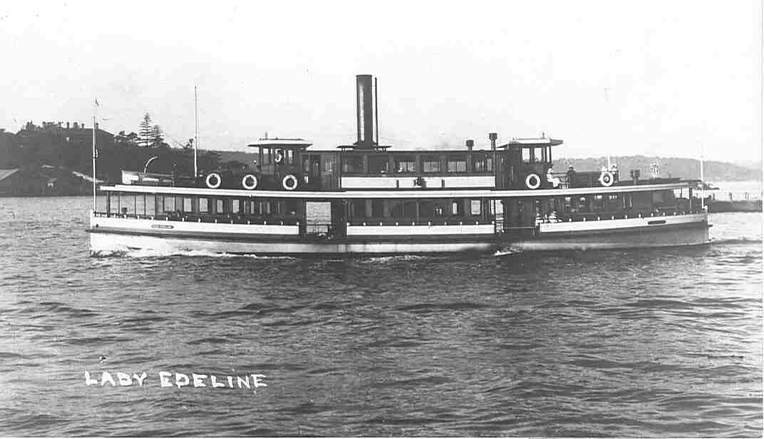 Sydney Ferry LADY EDELINE as a steamer. Built 1913, converted to diesel 1936, laid up 1984, sank 1988 This image forms part of the digitised photographs of the Ross and Pat Craig Collection. Ross Craig (1926-2012) was a local historian born in Stockton and dedicated much of his life promoting and conserving the history of Stockton, NSW. He possessed a wealth of knowledge about the suburb and was a founding member of the Stockton Historical Society and co-editor of its magazine. Pat Craig supported her husband’s passion for history, and together they made a great contribution to the Stockton and Newcastle communities. We thank the Craig Family and Stockton Historical Society who have kindly given Cultural Collections at the University of Newcastle, NSW, Australia, access to the collection and allowedus to publish the images. Thanks also to Vera Deacon for her liaison in attaining this important collection.Please contact Cultural Collections at the University of Newcastle, NSW, Australia, if you are the subject of the image, or know the subject of the image, and have cultural or other reservations about the image being displayed on this website and would like to discuss this with us.Some of the images were scanned from original photographs in the collection held at Cultural Collections, other images were already digitised with no provenance recorded.You are welcome to freely use the images for study and personal research purposes. Please acknowledge as“Courtesy of the Ross and Pat Craig Collection, University of Newcastle (Australia)" For commercial requests please consider making a donation to the Vera Deacon Regional History Fund.These images are provided free of charge to the global community thanks to the generosity of the Vera Deacon Regional History Fund. If you wish to donate to the Vera Deacon Fund please download a form here: you have any further information on the photographs, please leave a comment.